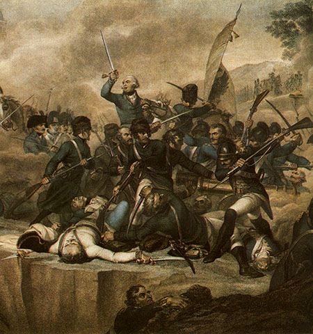 General Suvorov at the battle by river Adda on April 27, 1799 (painted by Luigi Schiavonetti)